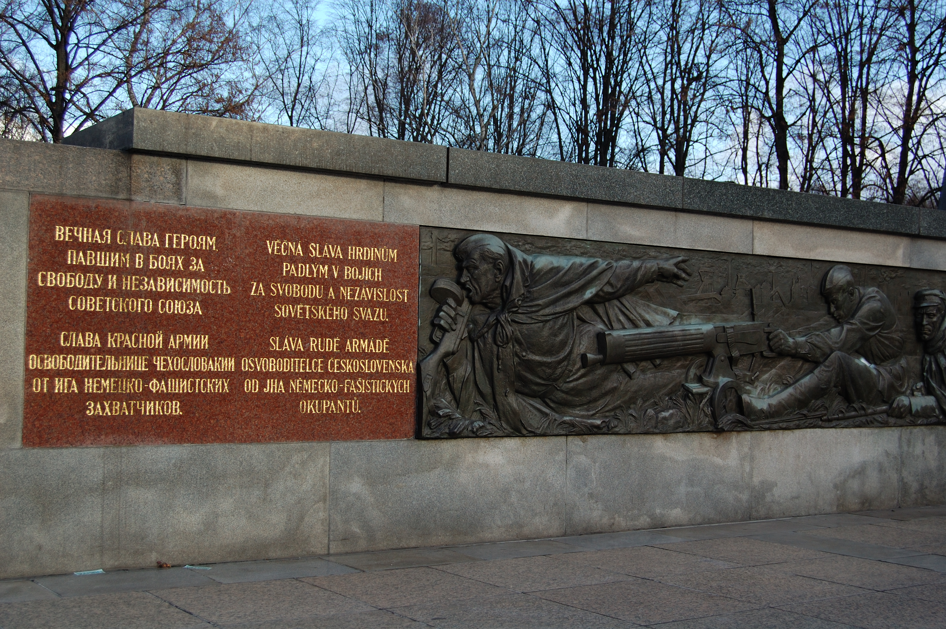 Red Army memorial in Komenského sady in Ostrava, Czech republic.